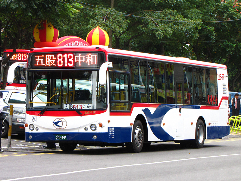 2009 KINGLONG KL6112U1 205-FP of Kuang-Hua Bus